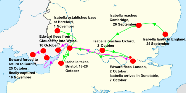 Location map of England Equirectangular projection, N/S stretching 170 %. Geographic limits of the map: * N: 56.0° N * S: 49.75° N * W: 6.75° W * E: 2.0° E